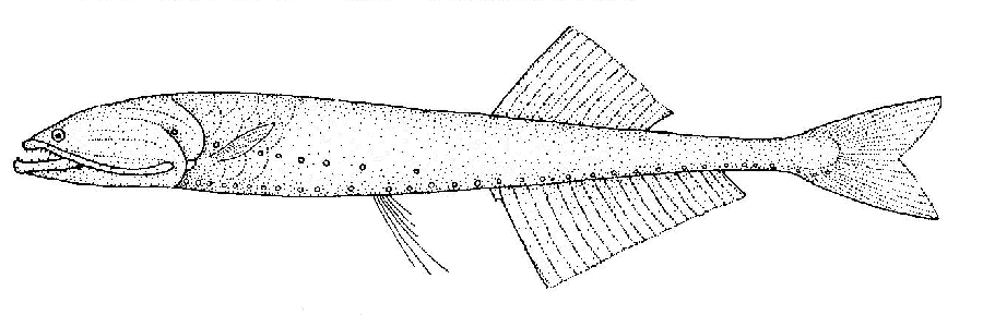 Cyclothone microdon (Veiled anglemouth)